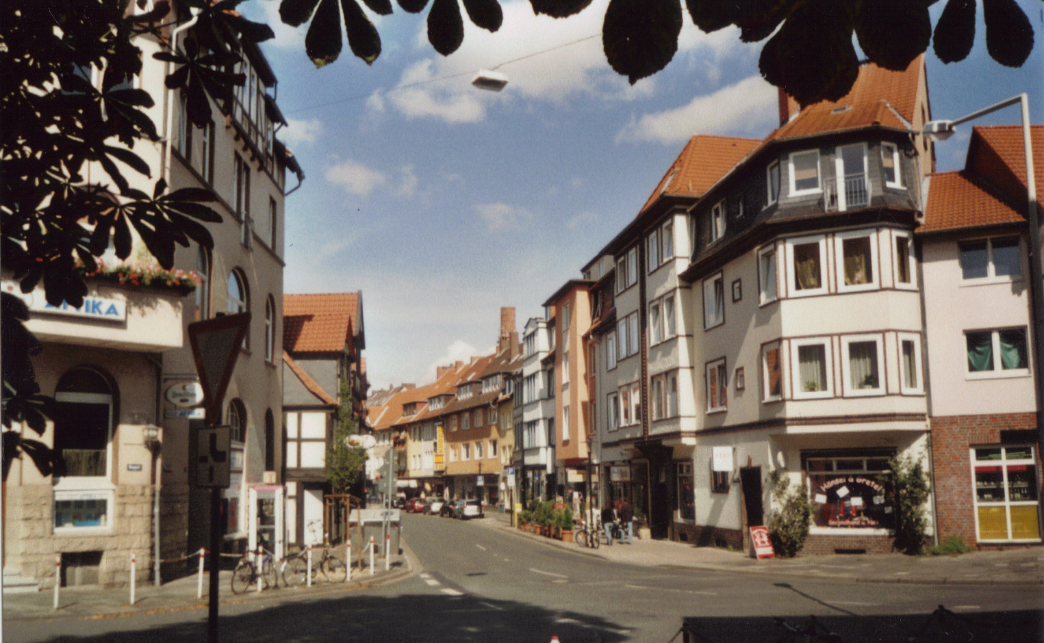 Dingworthstrasse, the main street of the borough of Moritzberg, Hildesheim, Germany.